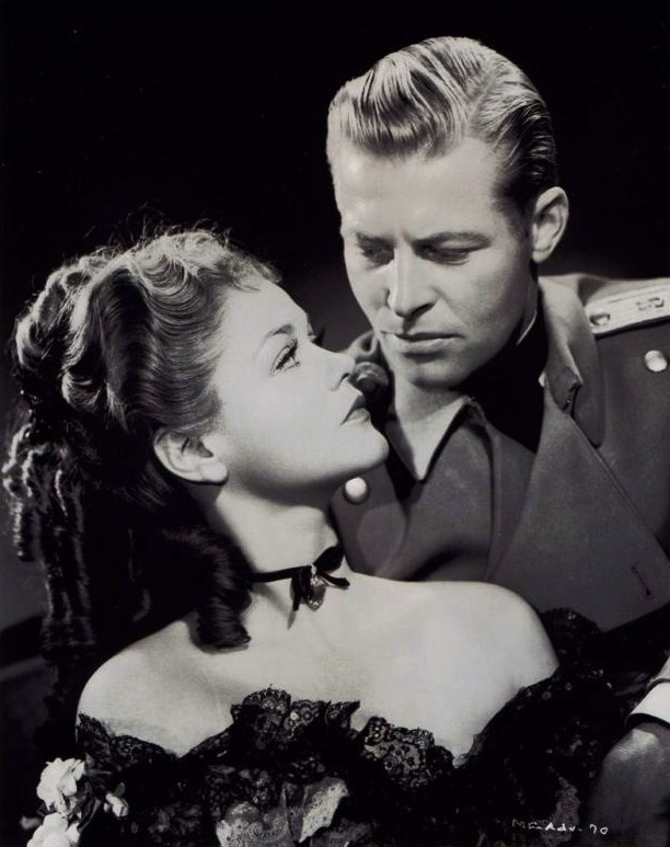 Simone Simon and Kurt Kreuger in Mademoiselle Fifi (1944) - publicity still (cropped : see source)